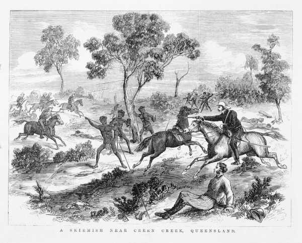 A skirmish between mounted police and Indigenous Australians near Creen Creek, Queensland